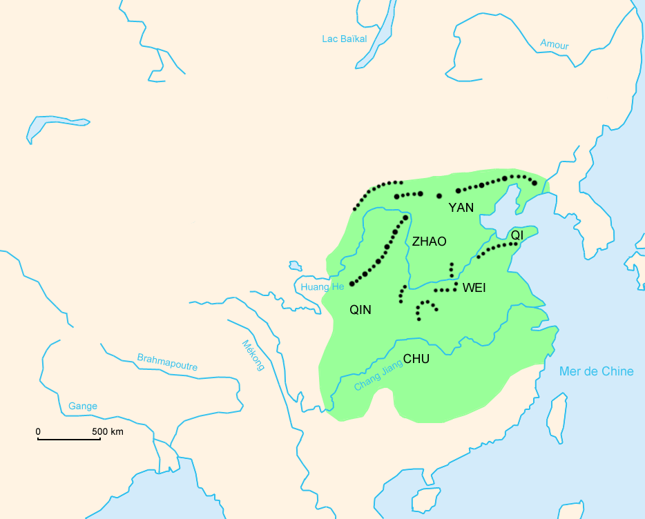 PNG map of the Great Wall : Warring States Period (475 BC - 221 BC) for the small dots, and Qin Dynasty (221 BC - 206 BC) for the big ones. It includes french names.